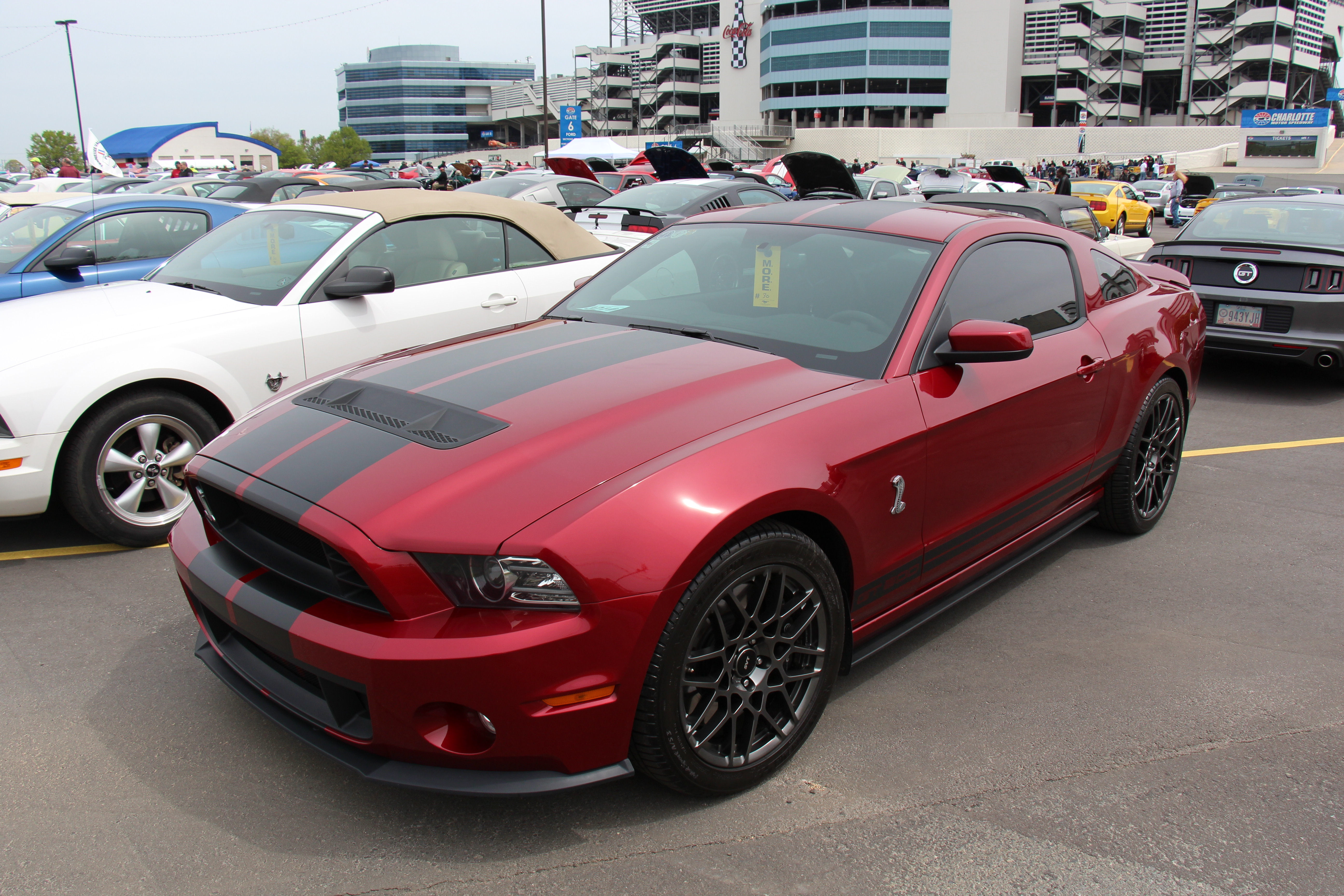 Ruby Red. The fifth generation began with the 2005 model year, and received a facelift in 2010 and again in 2013. The styling was influenced by the 1st generation Mustangs, headlights set back from the grille like the 67, 68 and the fastback roofline like the 65, 66. In 2007, Ford's Special Vehicle Team launched Shelby GT500 reminiscent of the 1960s cars. For 2013, the GT500 was the most potent Mustang ever, it got a supercharged 5.8 V8 putting out 662hp, a top speed of 200mph. Super Snake option also available at 850hp. Photographed at the 50th Anniversary of the Mustang celebrations at the Charlotte Motor Speedway, April 2014